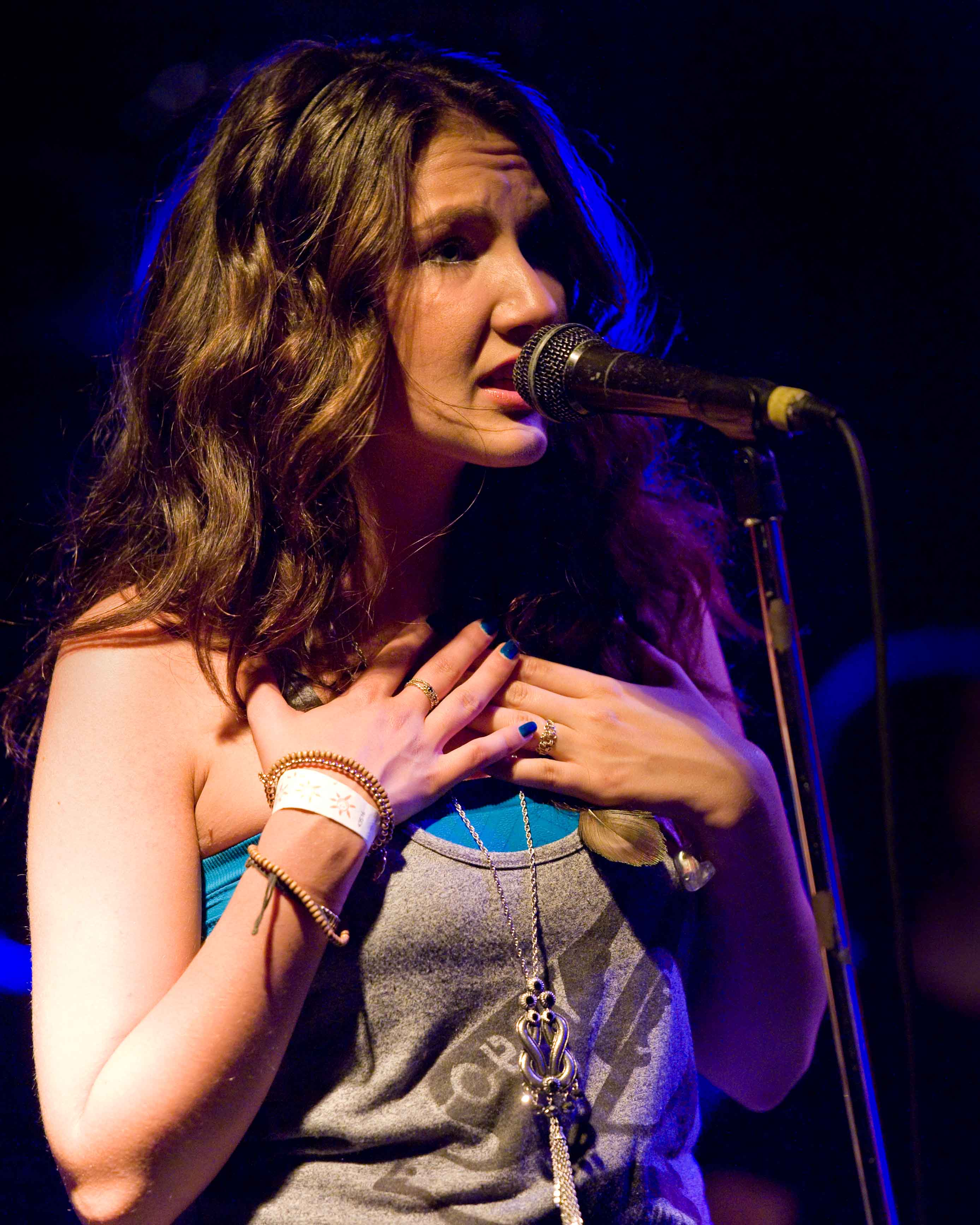 Katie Armiger performs on July 28, 2011 in Everett, Washington